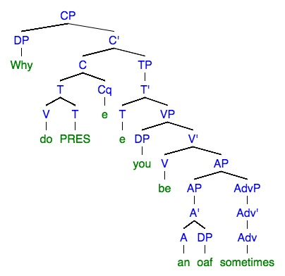 Detailed phrase structure of the ungrammatical sentence "Why you be an oaf sometimes"